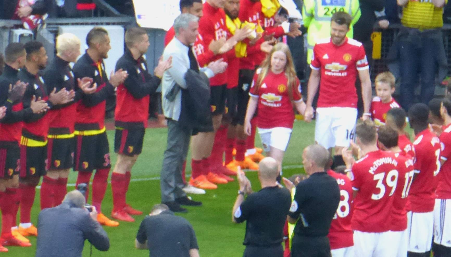 Manchester United v Watford (1-0), Premier League, Old Trafford, Manchester, Greater Manchester, England, 13 May 2018. Michael Carrick's final match.